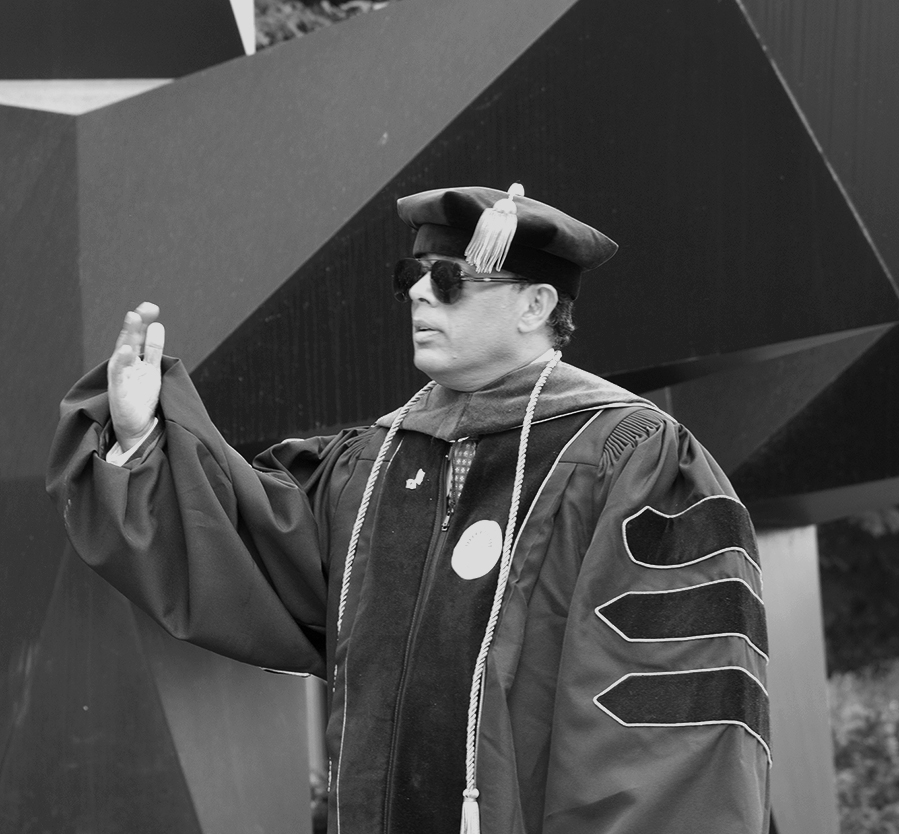 Doctoral Hooding Ceremony of Dr. Leo Rajan Pereira in Washington DC USA. (Doctorate in Corporate Finance)